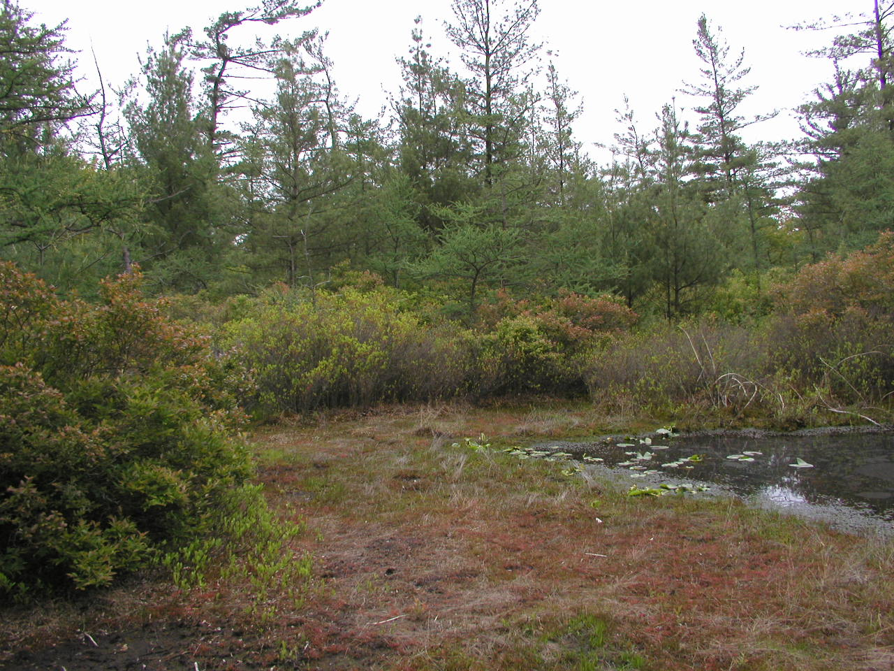 View of the sphagnum moss mat and surrounding woods, Pinhook Bog, Indiana Dunes National Lakeshore.